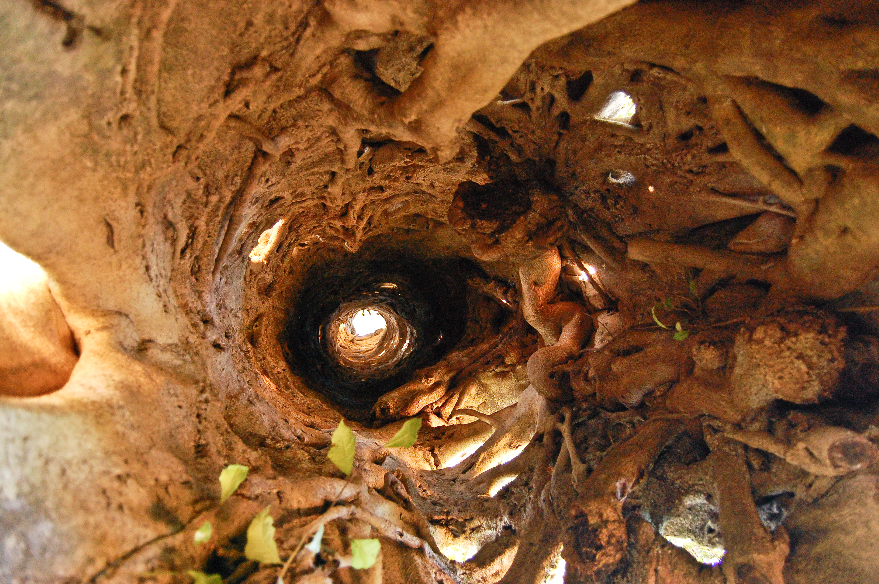 View upwards from inside the hollow of a strangler fig near the Ayerpadi estate near Valparai. The original tree around which this fig grew is dead leaving a hollow behind.